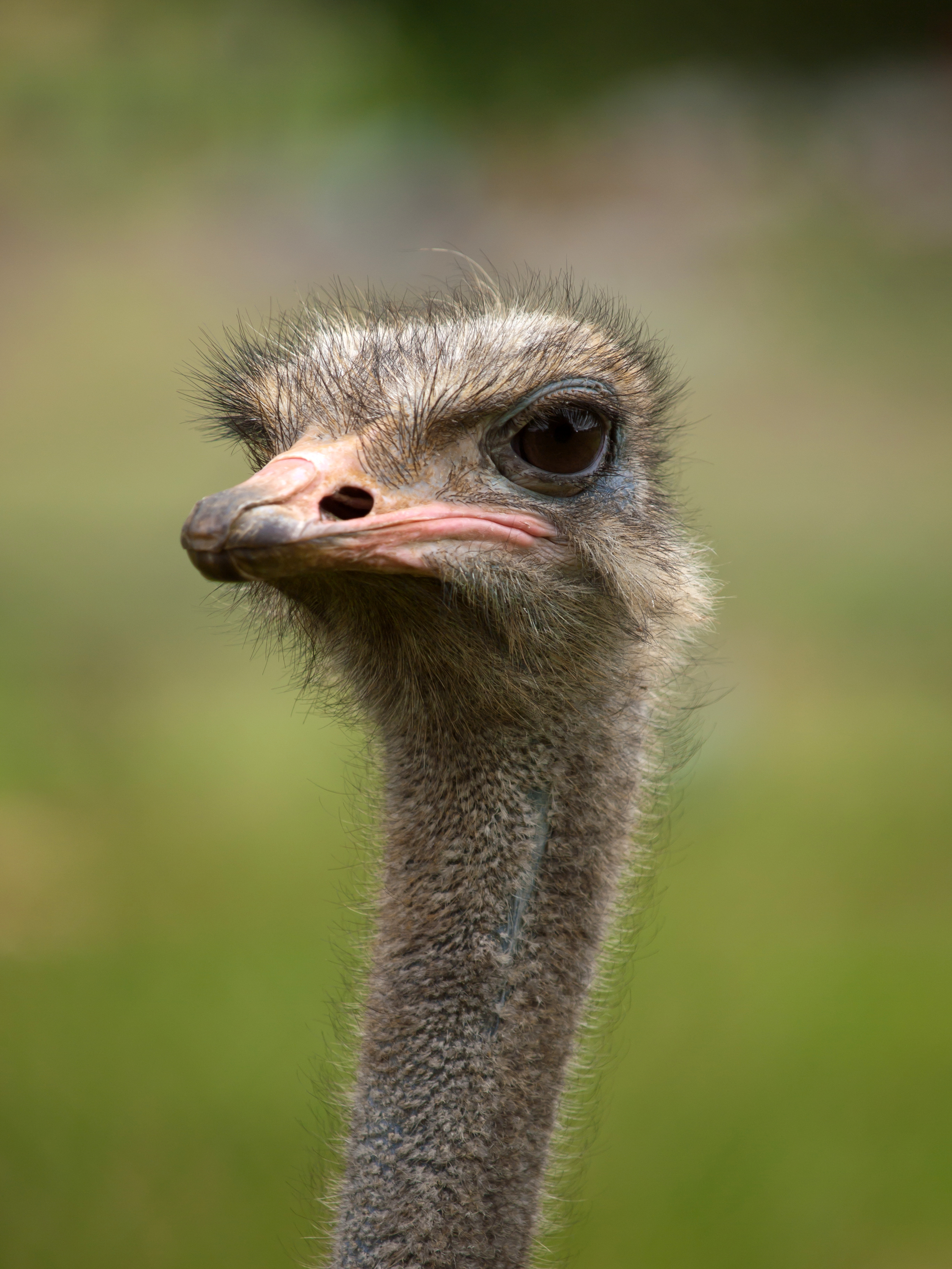 Ostrich (Struthio camelus) portrait at the Whipsnade Zoo in Bedfordshire, England.